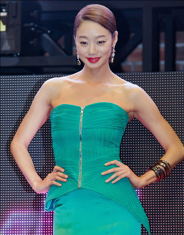 Choi Yeo-jin at I Need Romance premiere, in June 2011